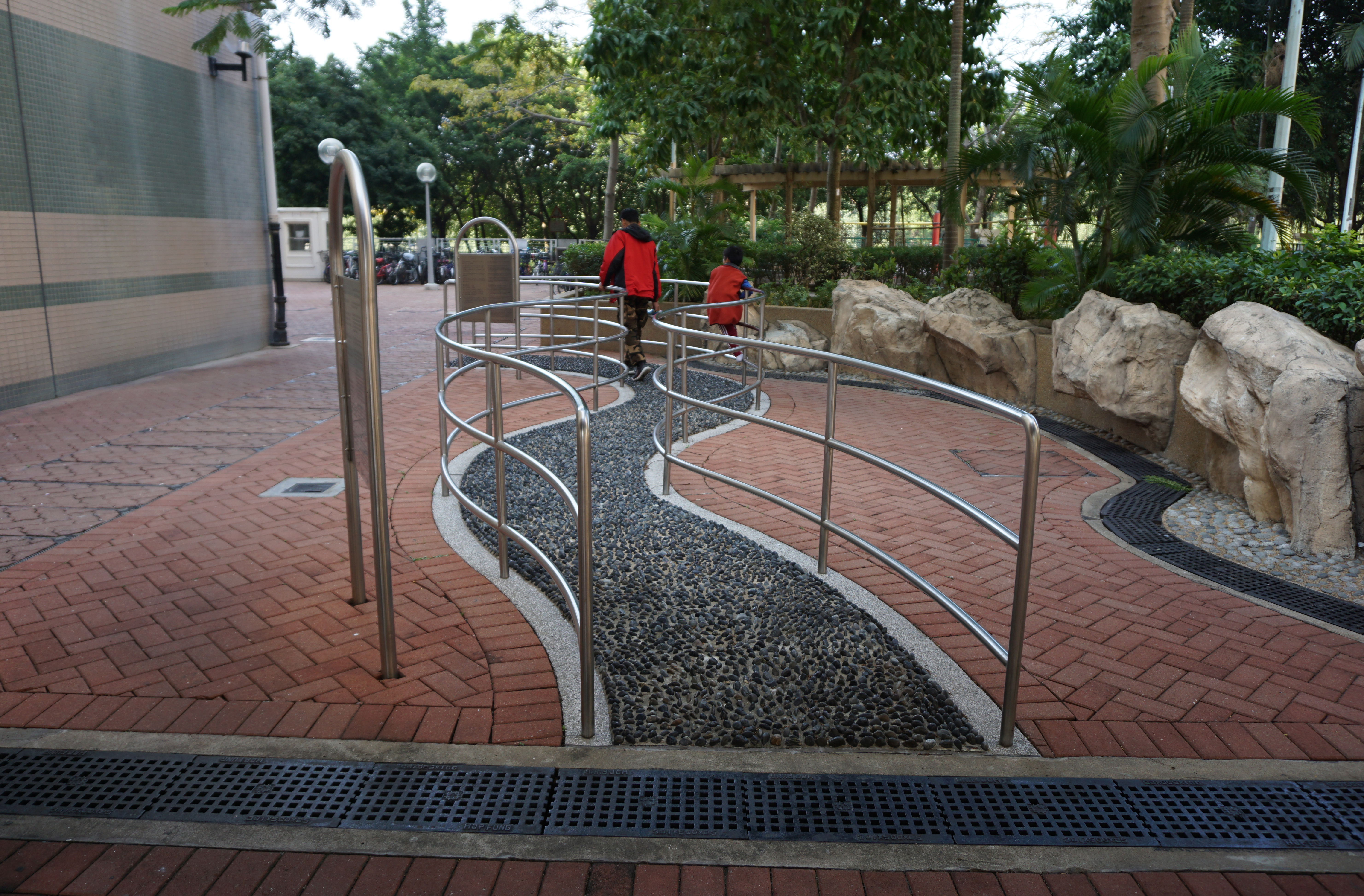 Tin Yan Estate in Tin Shui Wai, Hong Kong.